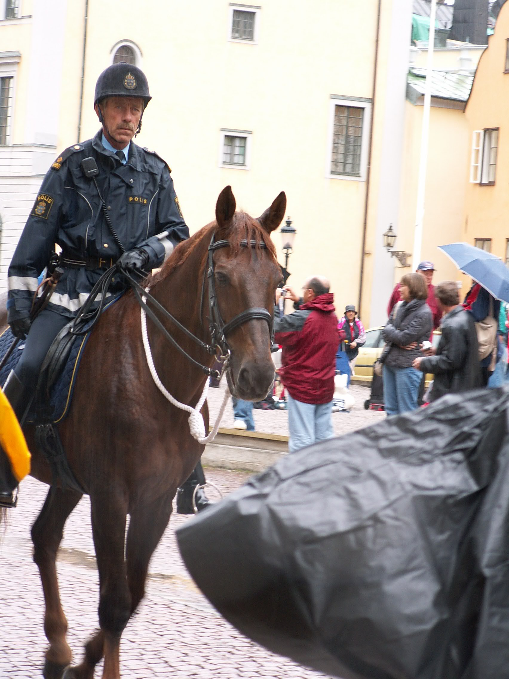 Ridande polis vid Stockholms slott.